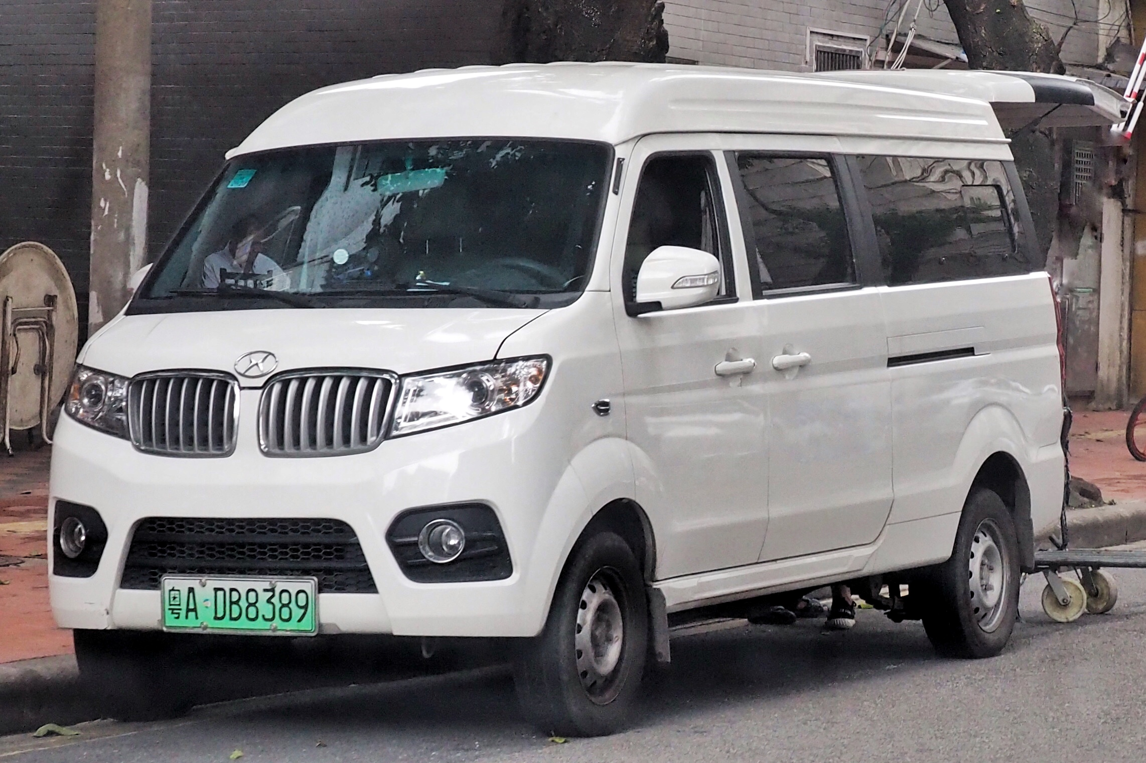 A 2015 Brilliance Jinbei Haixing X30 taken in Guangzhou, Guangdong province, China. 中文（中国大陆）: 一辆华晨金杯海狮X30，摄于中国广东省广州市。